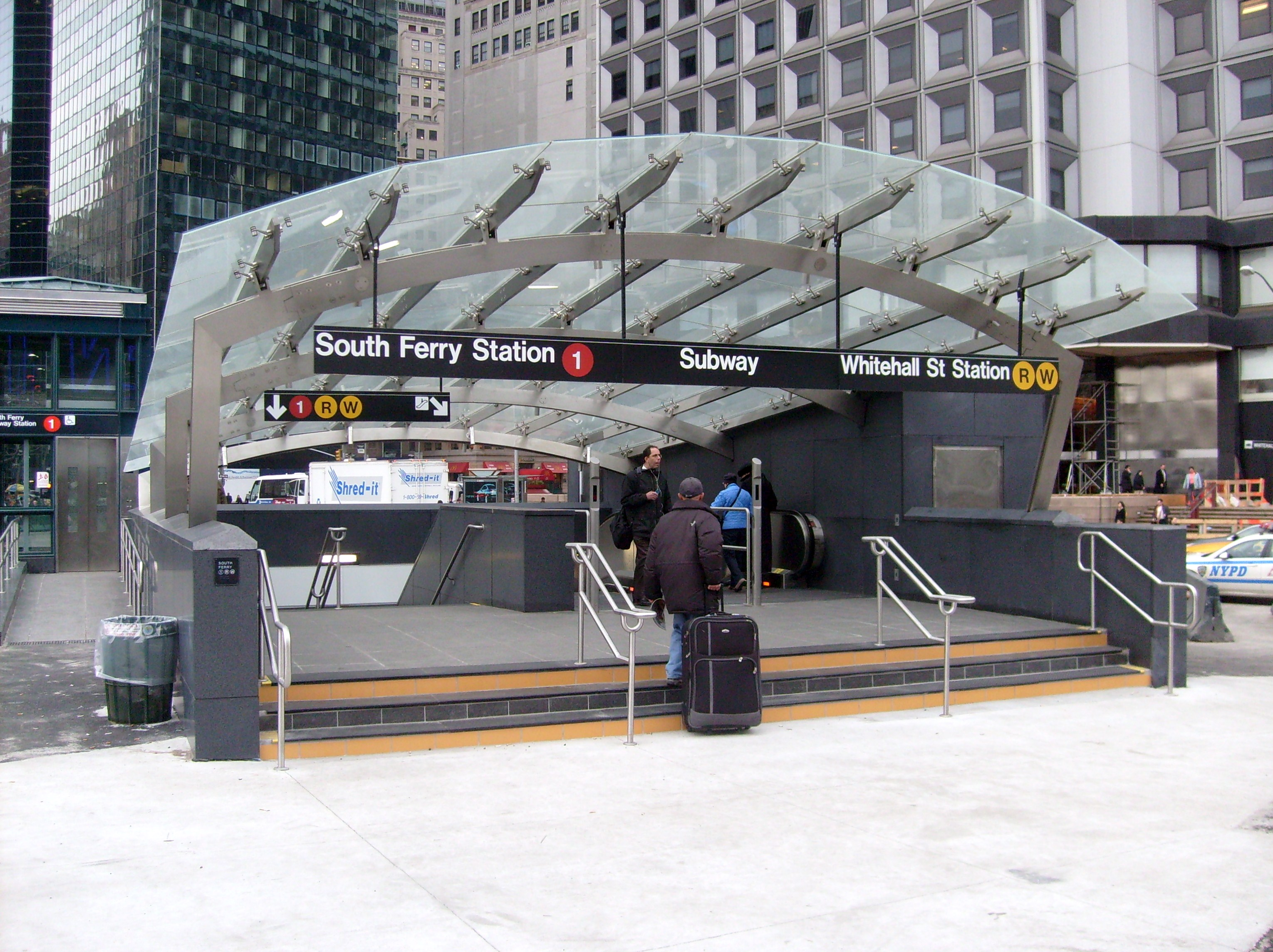 The entry to the New South Ferry - White Hall Street Station